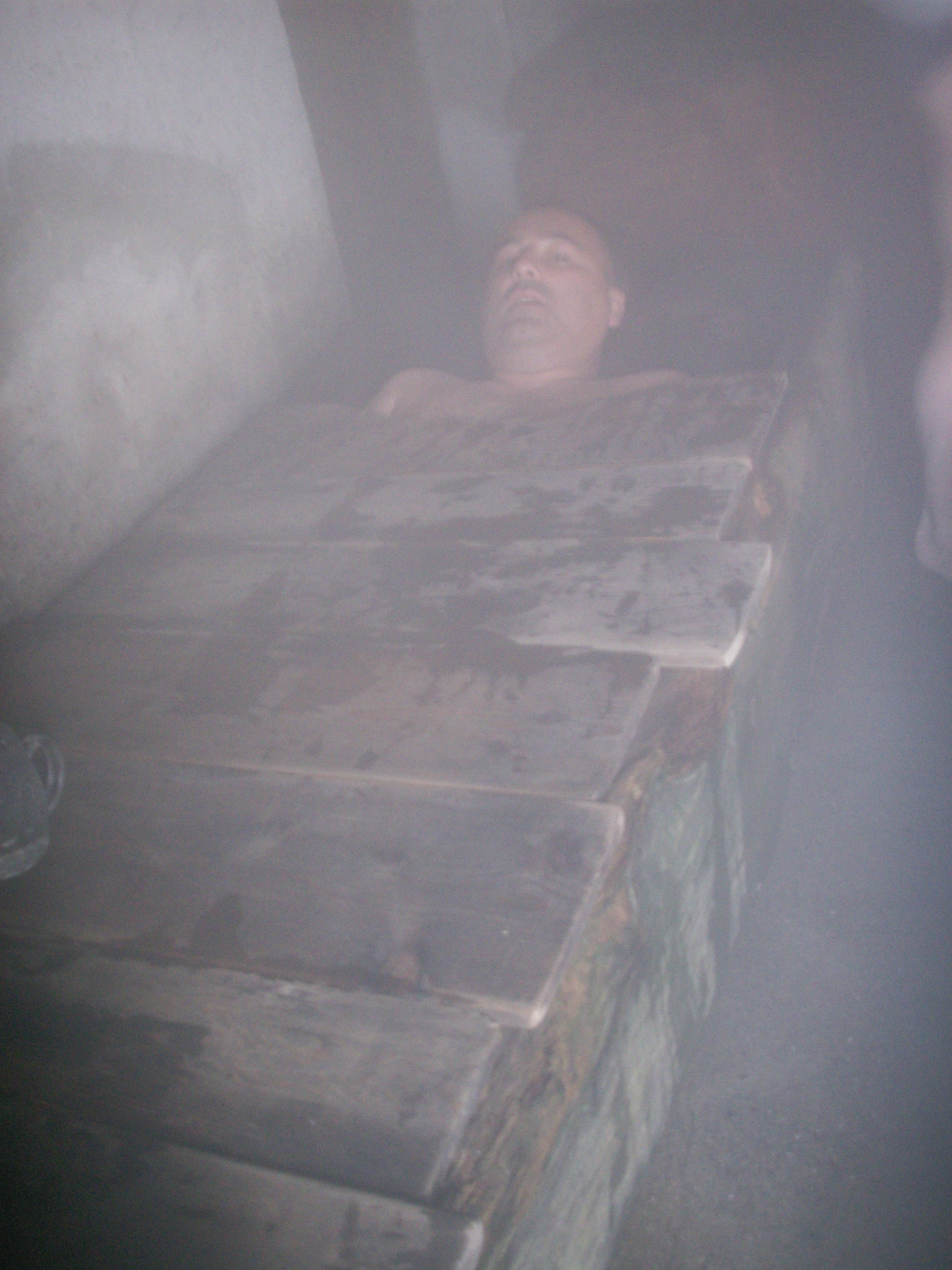 Bath tubs in an old farmers spa still in use near Innerkrems in the Nockberge mountain range, district Spittal an der Drau / Carinthia / Austria / EU. A male bather in the bath-house in the wooden tub covered with larch planks.